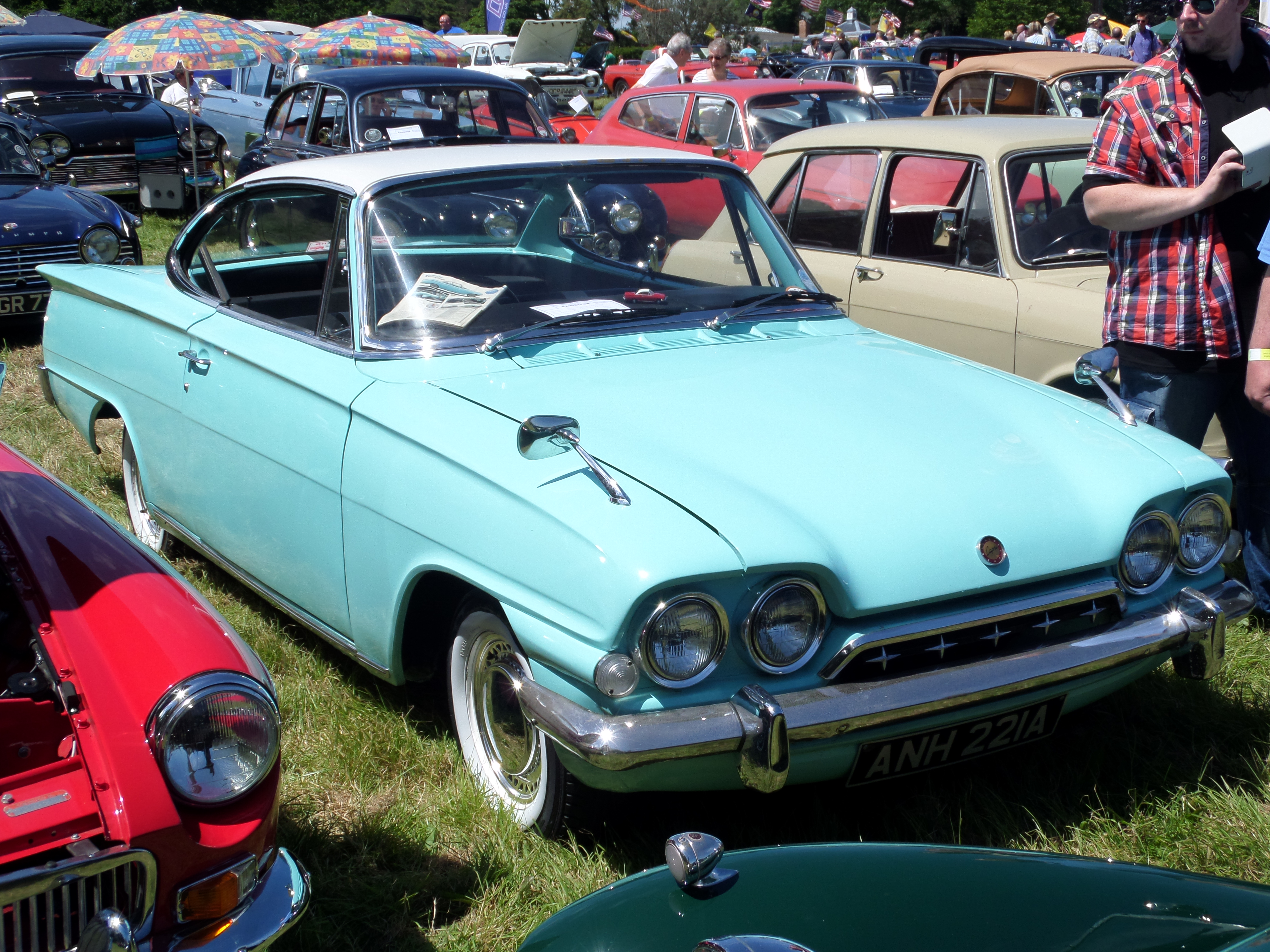 Wessex Car Show, Lulworth Castle, Dorset on Sunday 8th June 2014